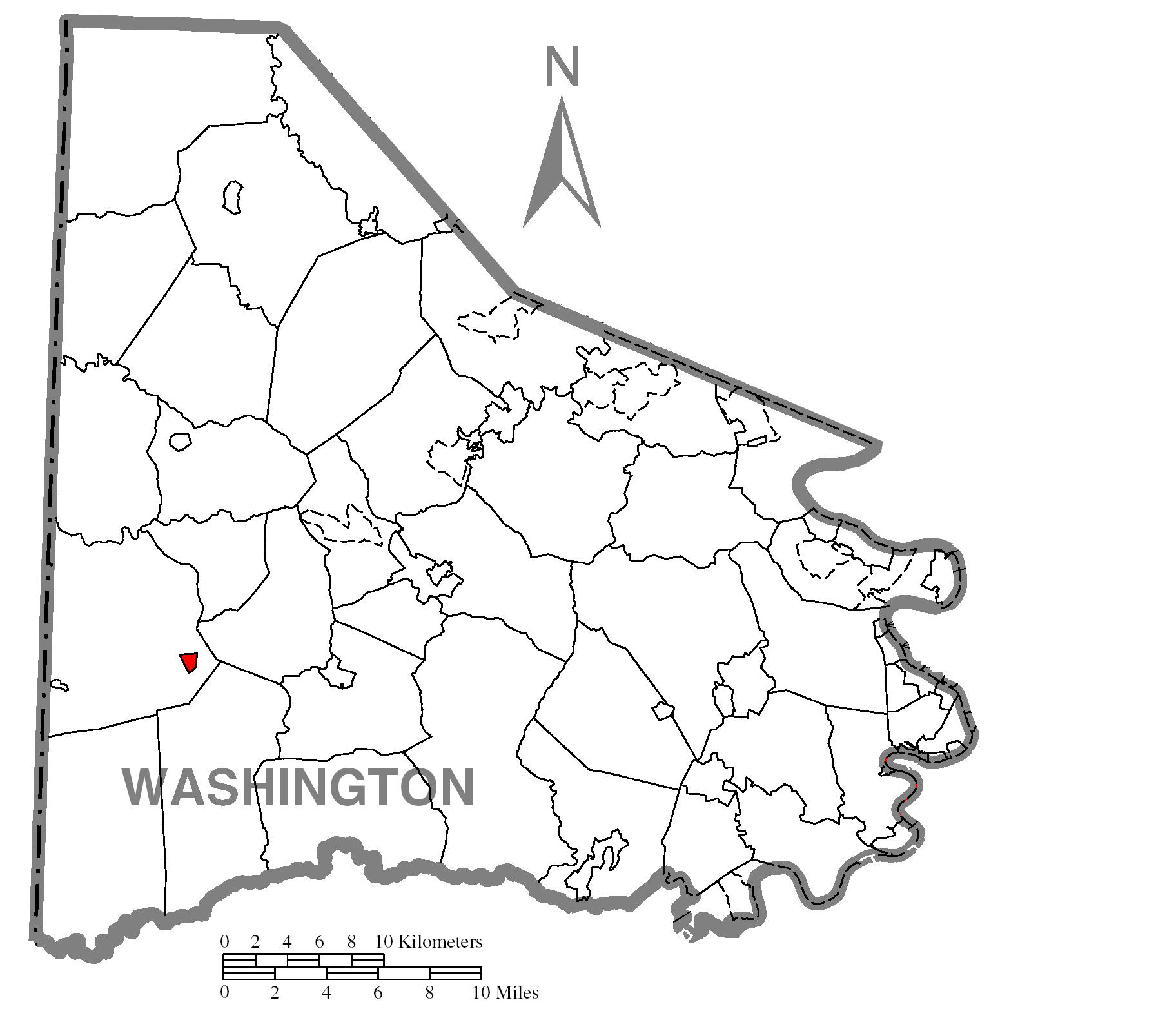 Map of Washington County higlighting Claysville.